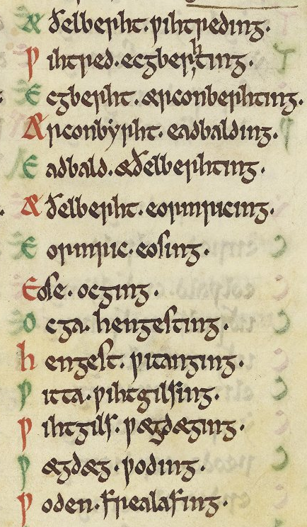 The ancestry of King Æthelberht II of Kent in the Textus Roffensis.